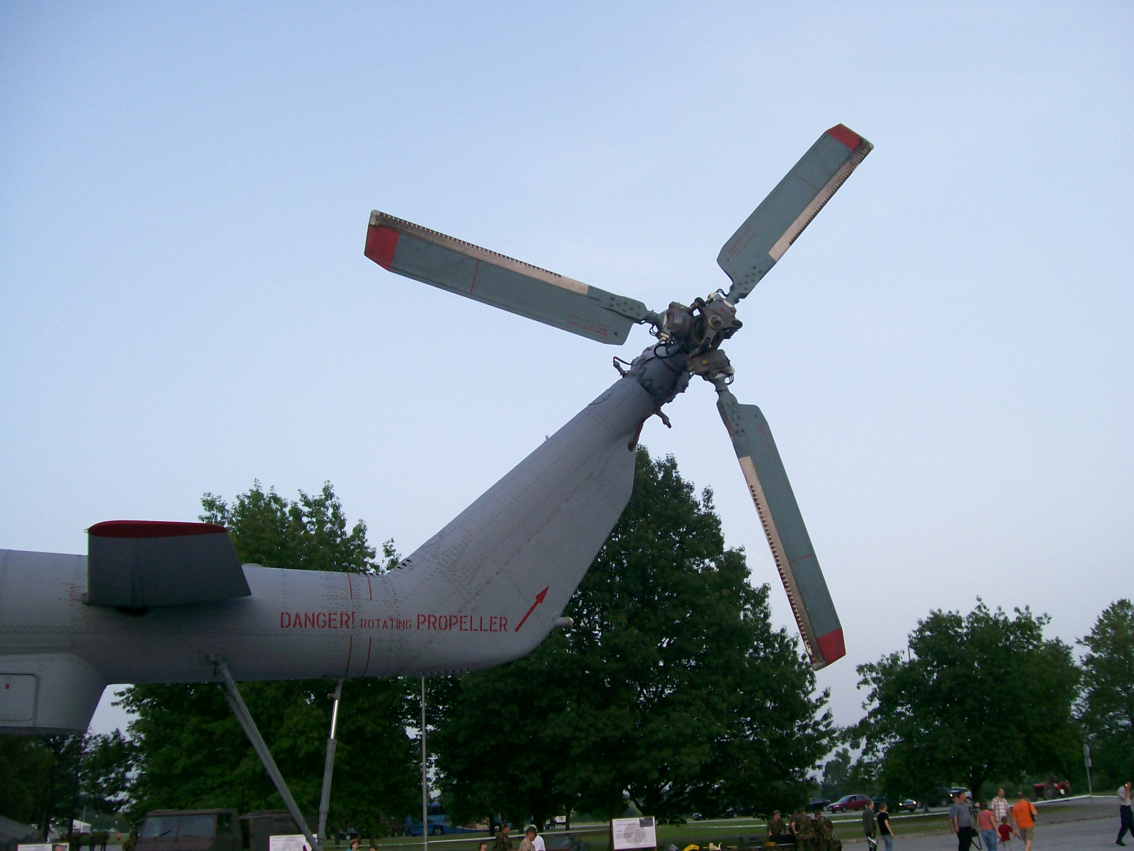 Propeller on Mil Mi-171 Sh of the Croatian Air Force